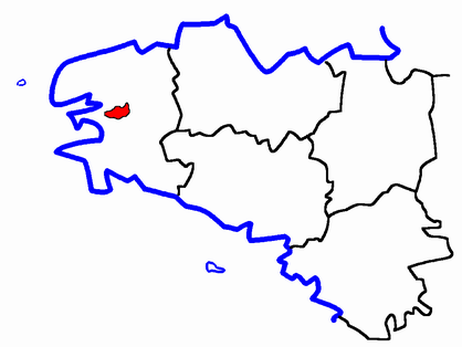 Description: Map for localisazion of cantons of Bretagne region in France Source: made by Hervé Tigier in april 2005 from another large map (published in 1990)